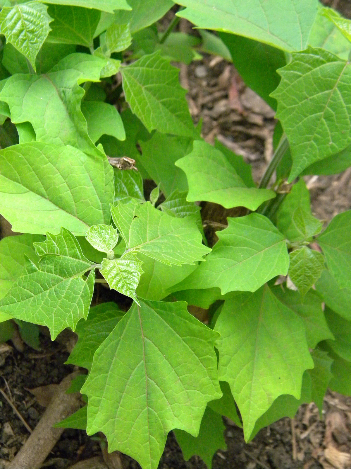 Gmelina arborea young leaves